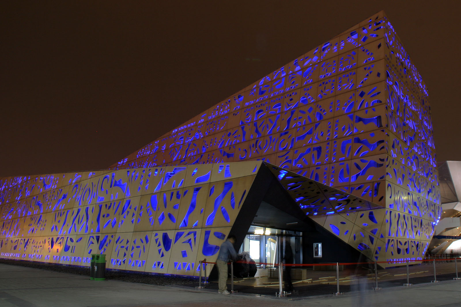 Polish Pavilion of Expo 2010